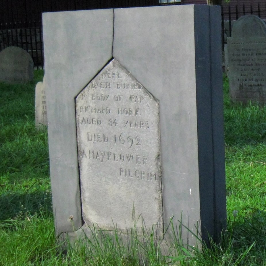 The original gravestone, in protective rock, of Mayflower passenger Captain Richard More. Taken by Max Anderson, Chicago, IL in Salem, MA.